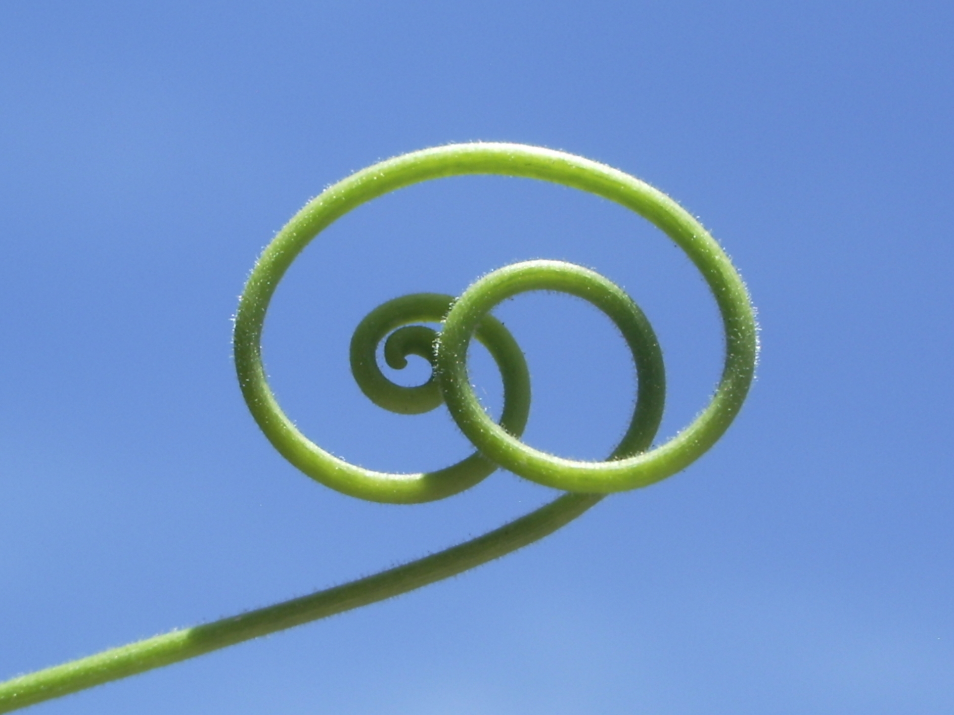 Tendril of Purple passionflower (Passiflora incarnata)